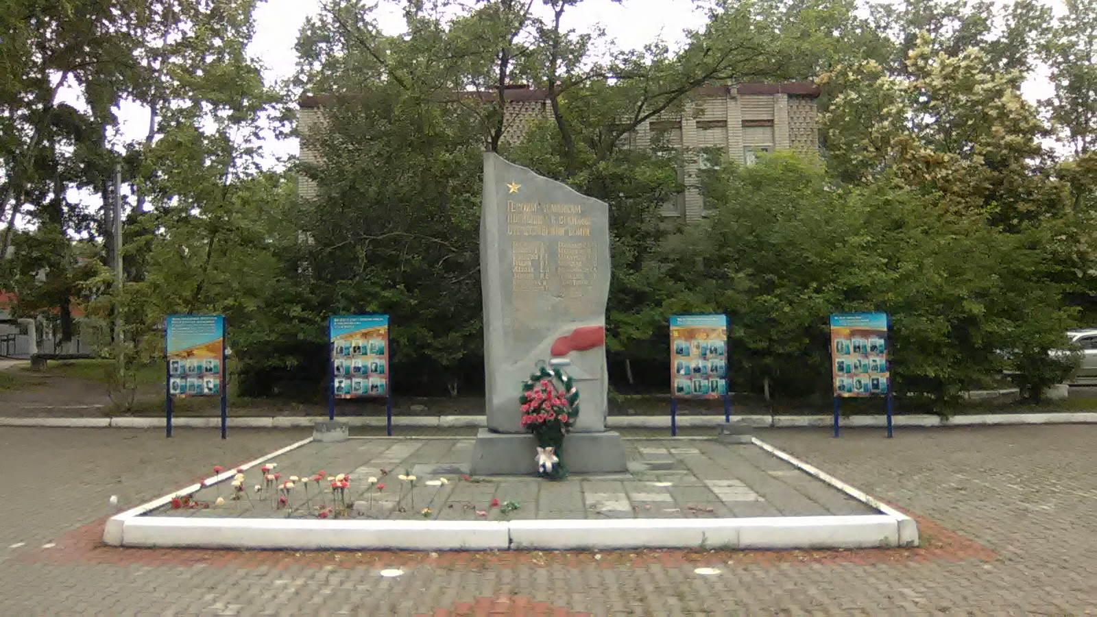 Площадь Славы